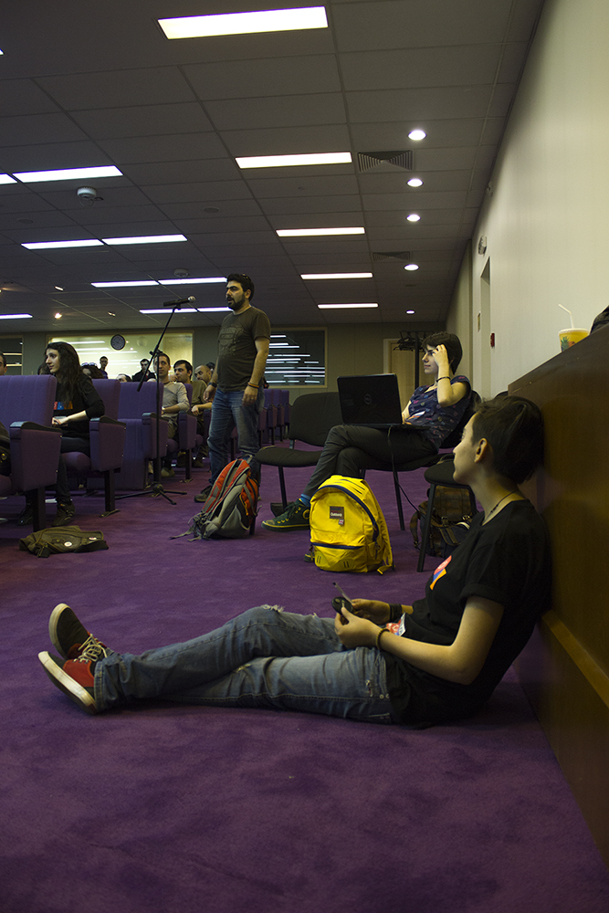 Discussion after one of the presentations.